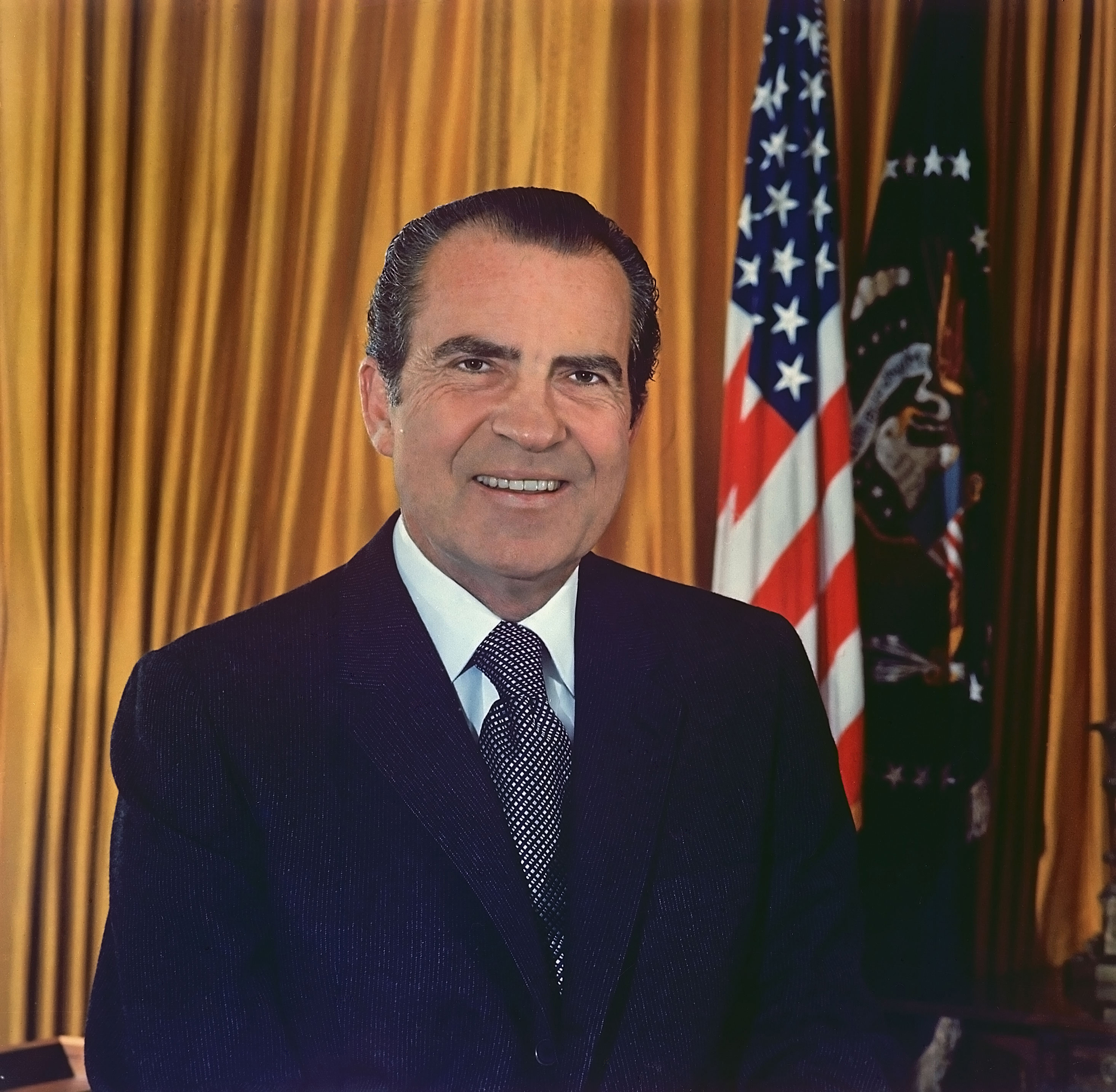 Official White House photo of President Richard Nixon